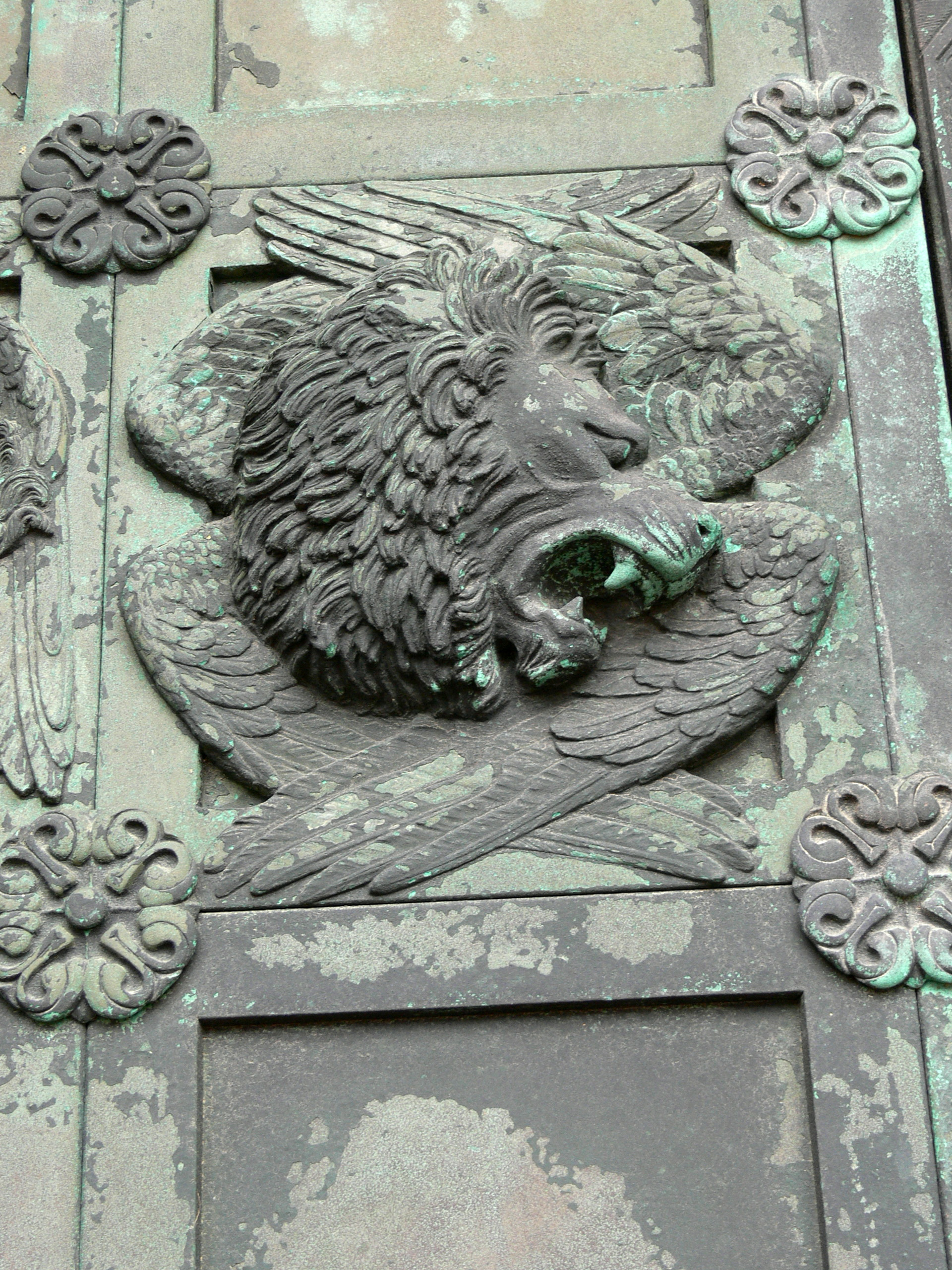 Ribe Cathedral. North Portal: Lion of Saint Mark ( 1904 ) by Anne Marie Carl-Nielsen